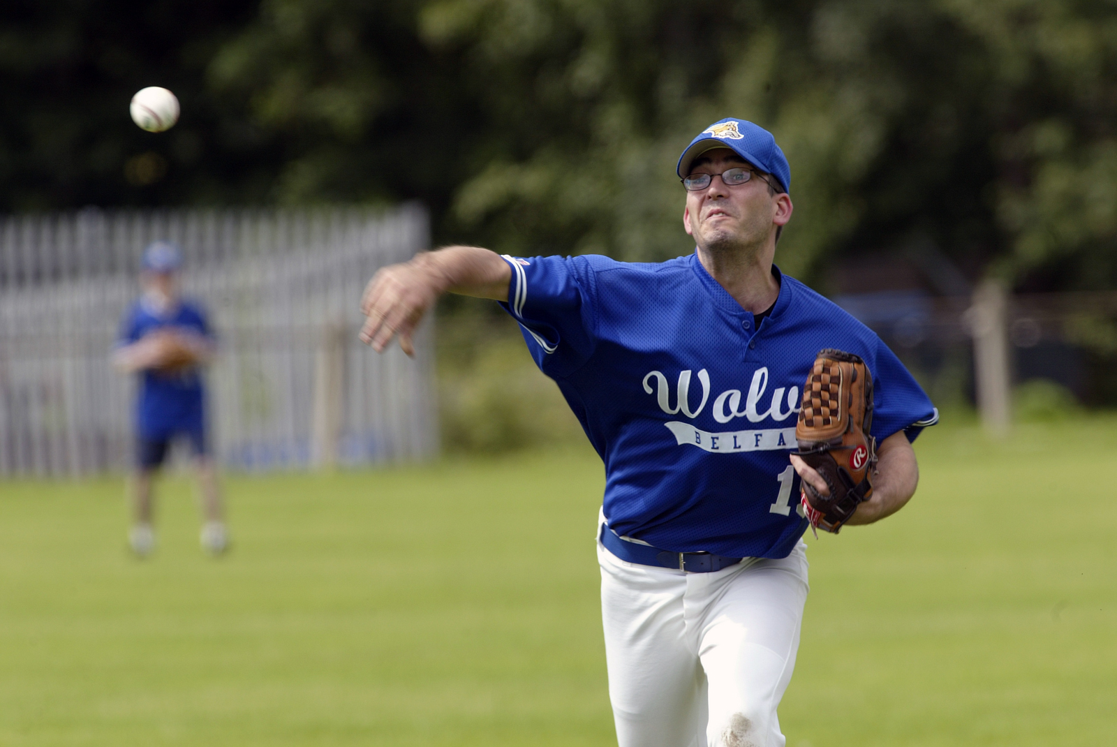 Wolves pitcher Conor Dawson in action against the Greystone Mariners in 2004. To be included in The Belfast Northstars article.